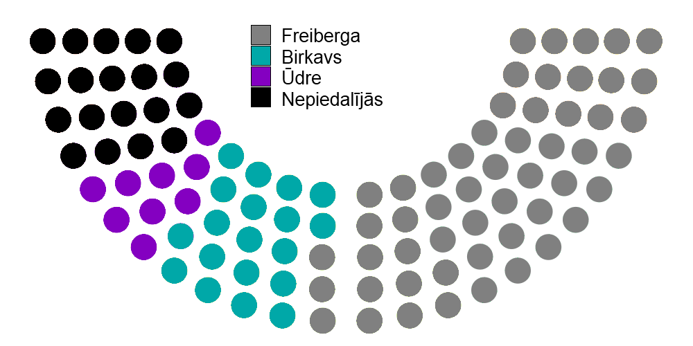 Graph showing the Saeima voting in Latvian presidential election, 1999.